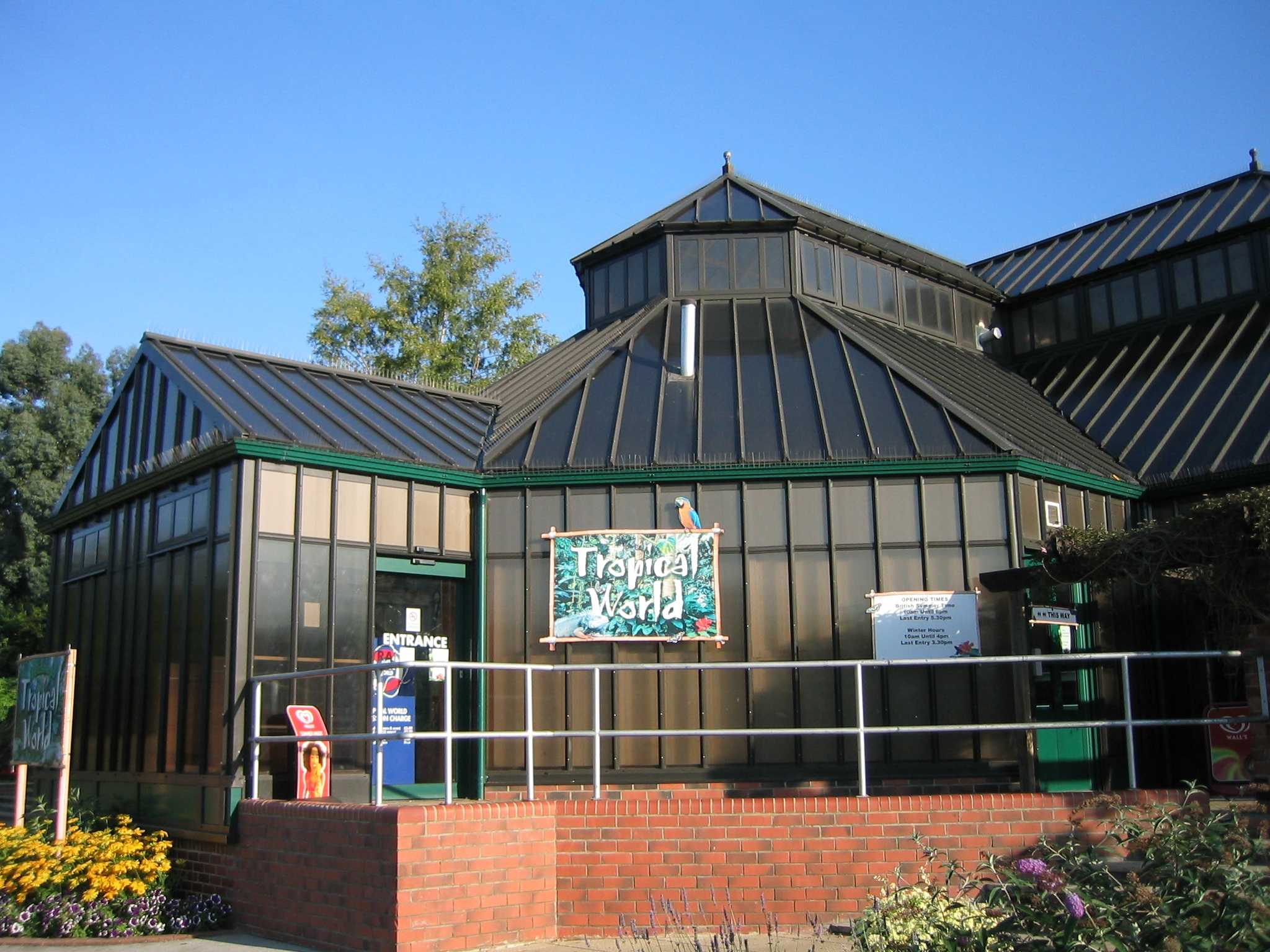 Tropical World, Roundhay, Leeds, UK. Collection of tropical plants in glasshouses, with birds, butterflies and fish. Exterior View.